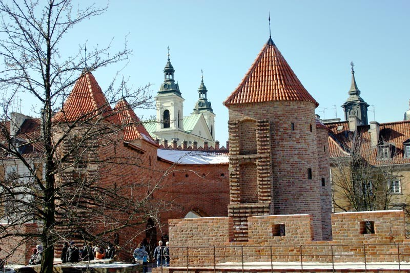 Barbakan in Warsaw with the permission of the authors Marek and Ewa Wojciechowscy from [